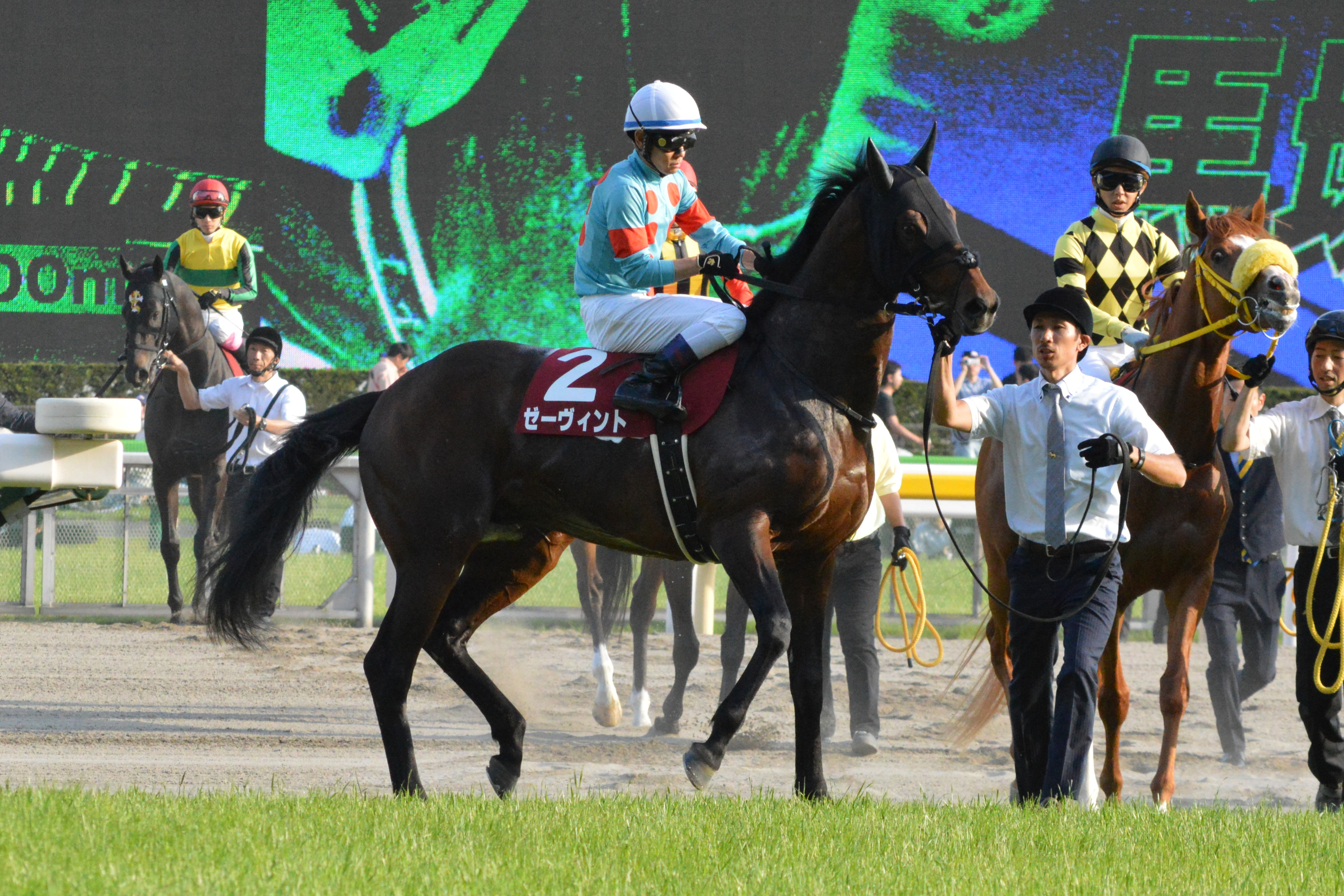 Japanese race horse Seewind at Tokyo racecourse. Tokyo (JPN) 27 May 2018Meguro Kinen (Grade 2 Handicap) (Turf) (4yo+) 1m41/2f Firm RankHorse NameOddsAgeWgtJockeyTrainer1stWin Tenderness (JPN)167/10H554Hiroyuki UchidaHaruki Sugiyama6thSeewind (JPN)67/10H557.5Keita TosakiTetsuya KimuraOthers are omitted. (16 horses entered in a race.)